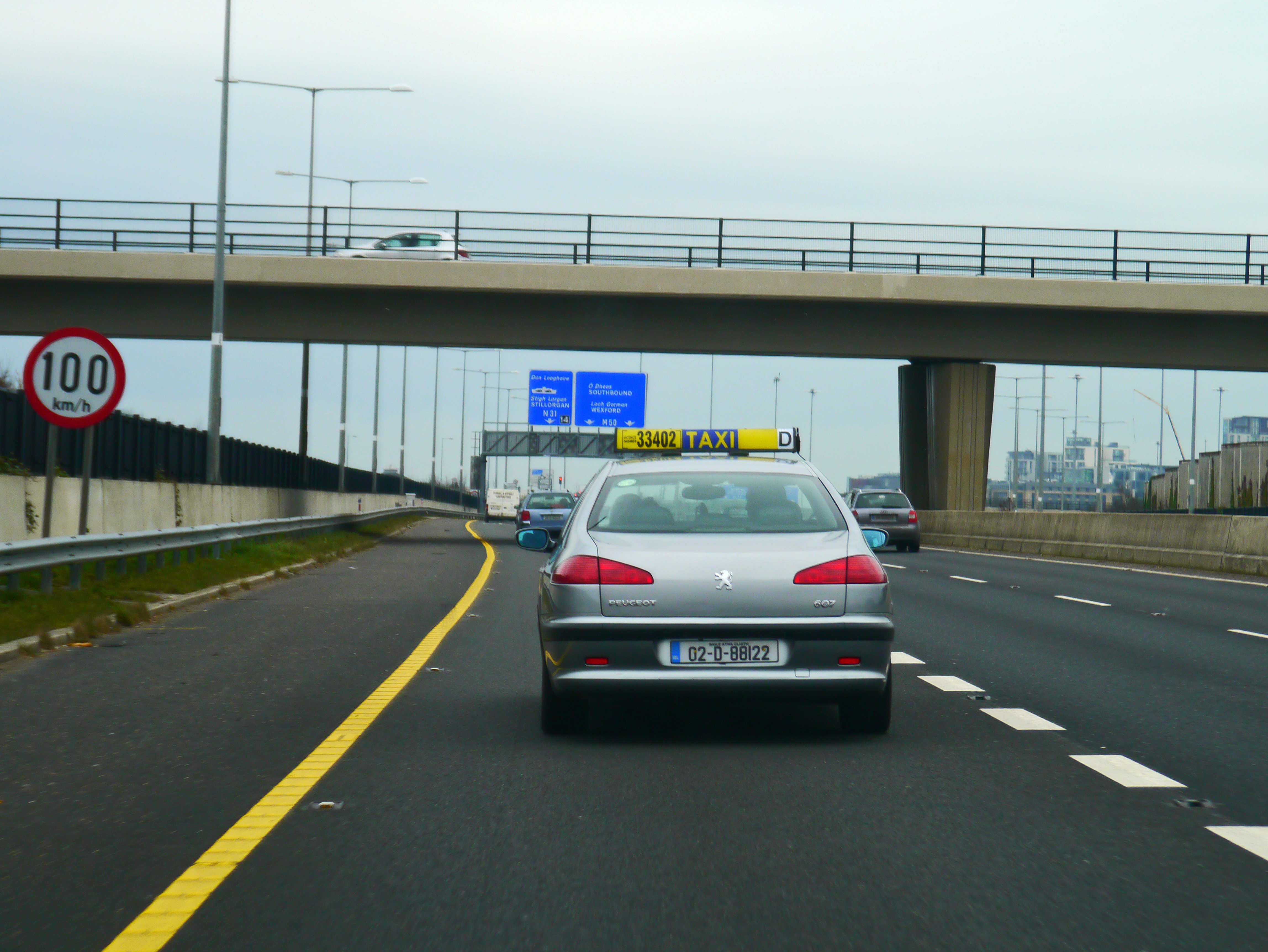 2002 Peugeot 607 2.2 HDI SE auto. The first and only 607 taxi I have ever seen so far in Ireland (quite a few in France but rare). It seems like an obvious choice when it comes to carry passengers. Reliability issues...?